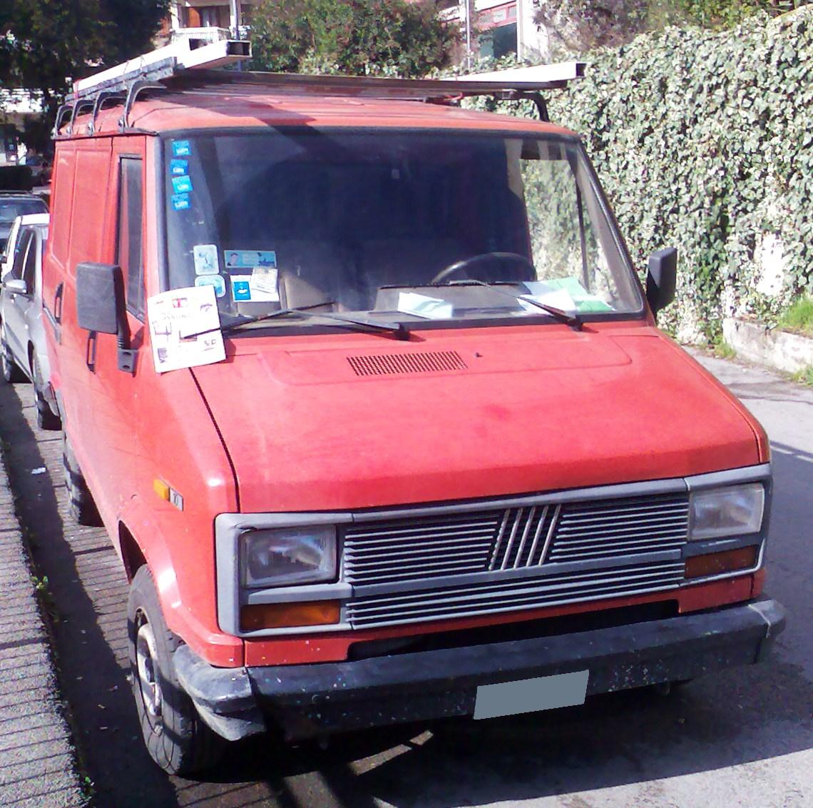 Fiat Ducato 1989